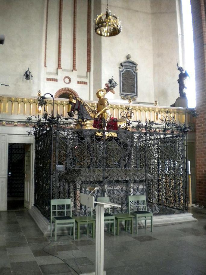 Grave monument over the family crypt of King Carl IX of Sweden in Strängnäs Cathedral, as released by image creator RistessonPlace: Strängnäs, Sweden